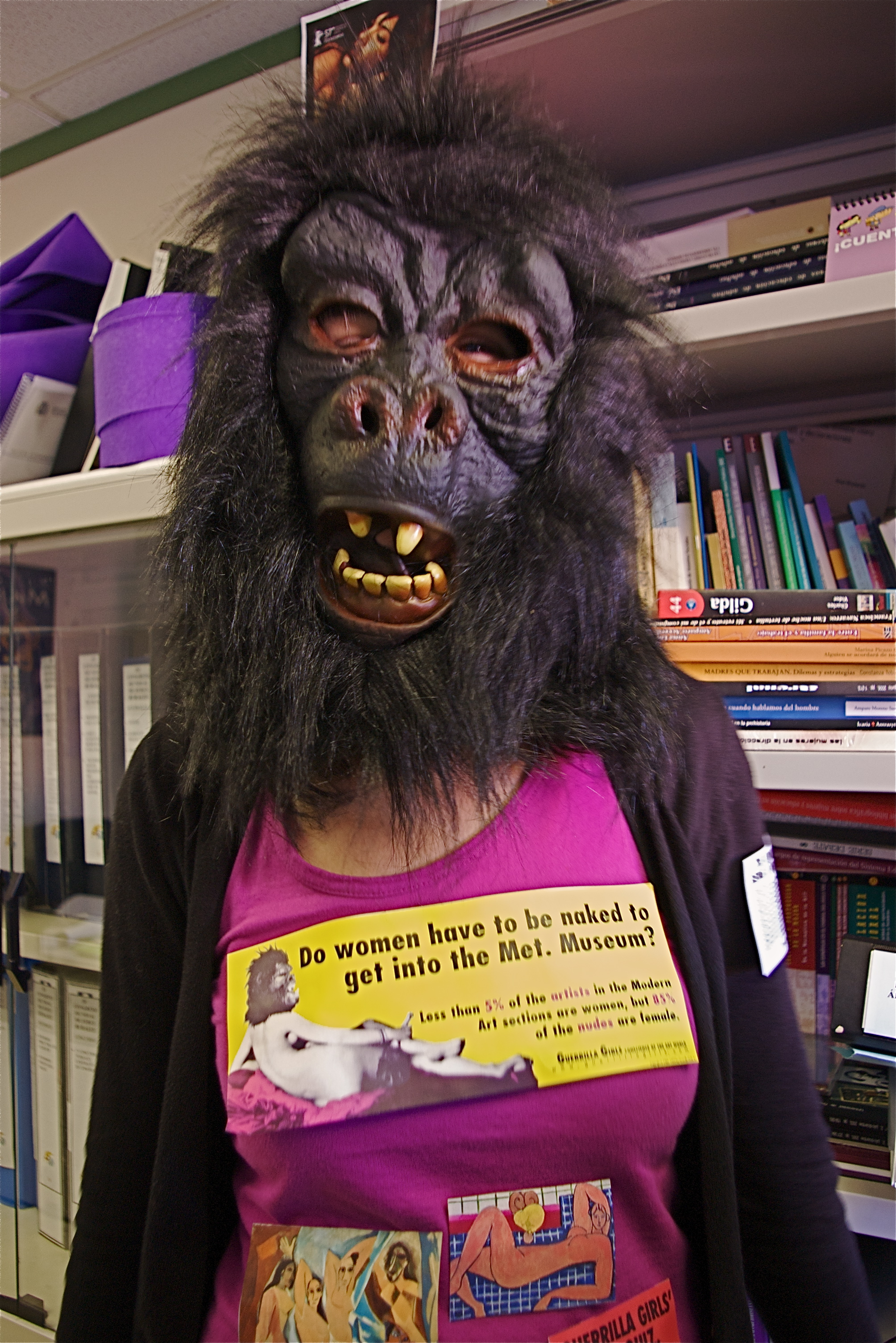 A photo of someone dressed as a Guerrilla Girl.